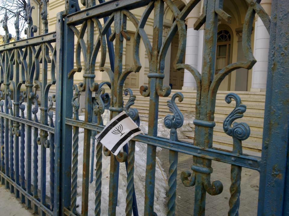 the fence of the Choral Synagogue of Vilnius with a Yiddish flag